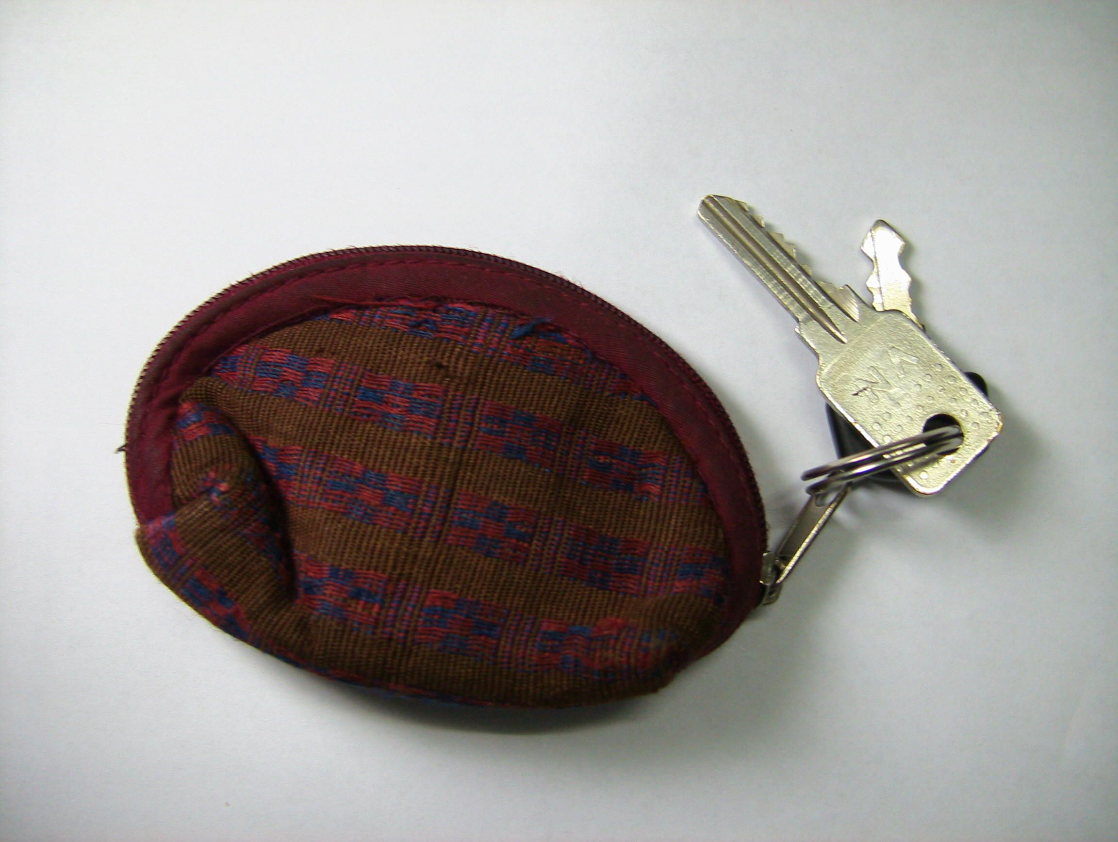 A small brocade purse